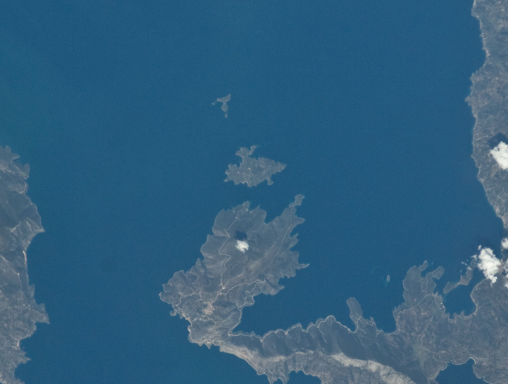 Greek Island Paleo Trikeri from space